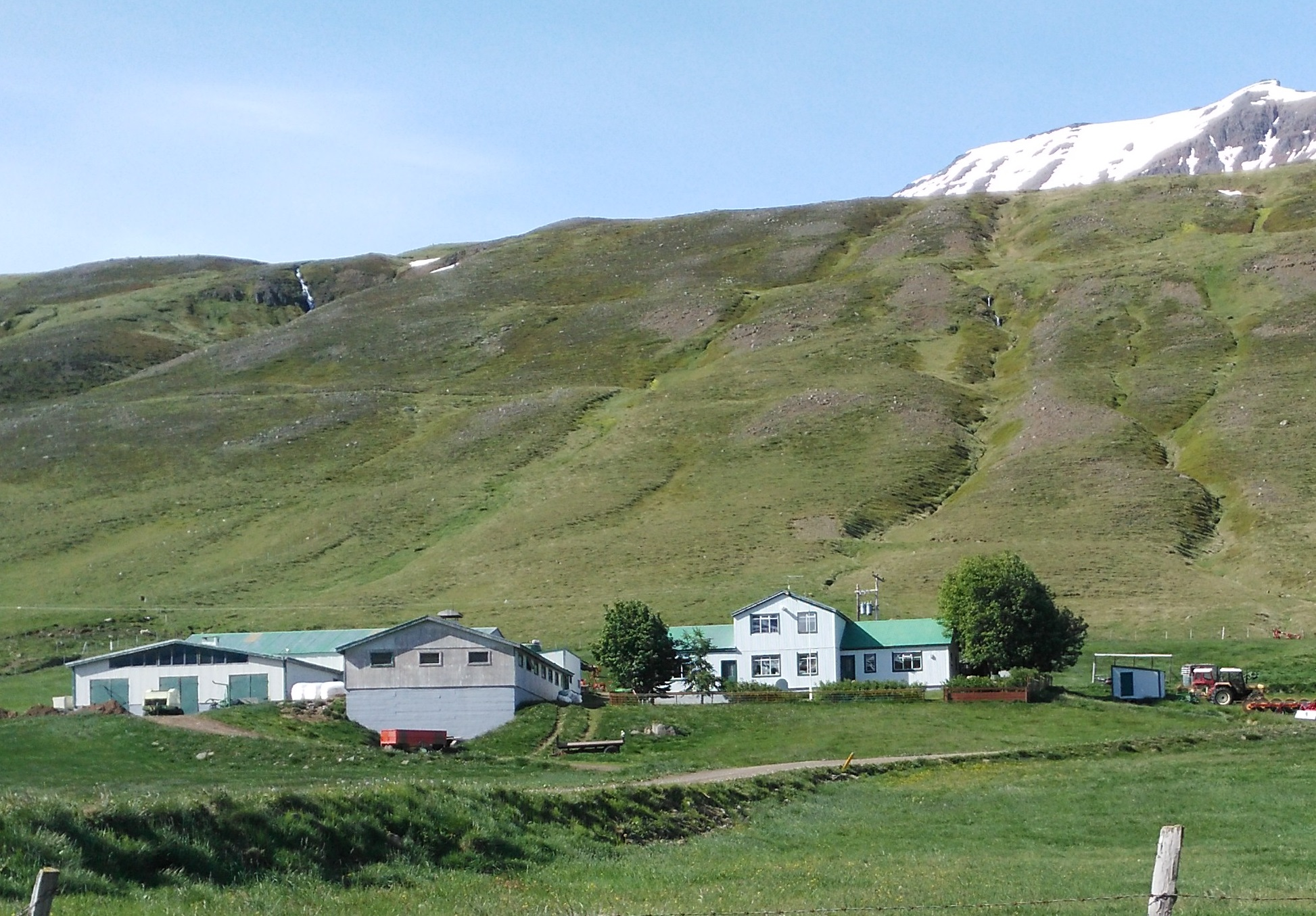 Klaufabrekknakot farm in Svarfaðardalur valley N-Iceland